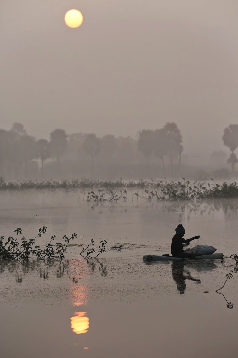 Sun Rise Fisherman at Kotha Kunta